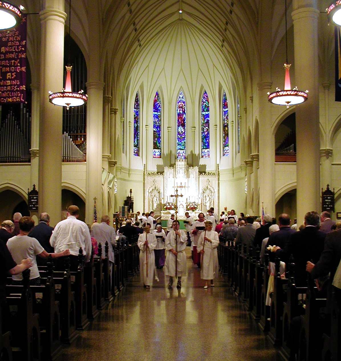 Recessional at St. Mary's Episcopal Cathedral, Memphis, Tennessee